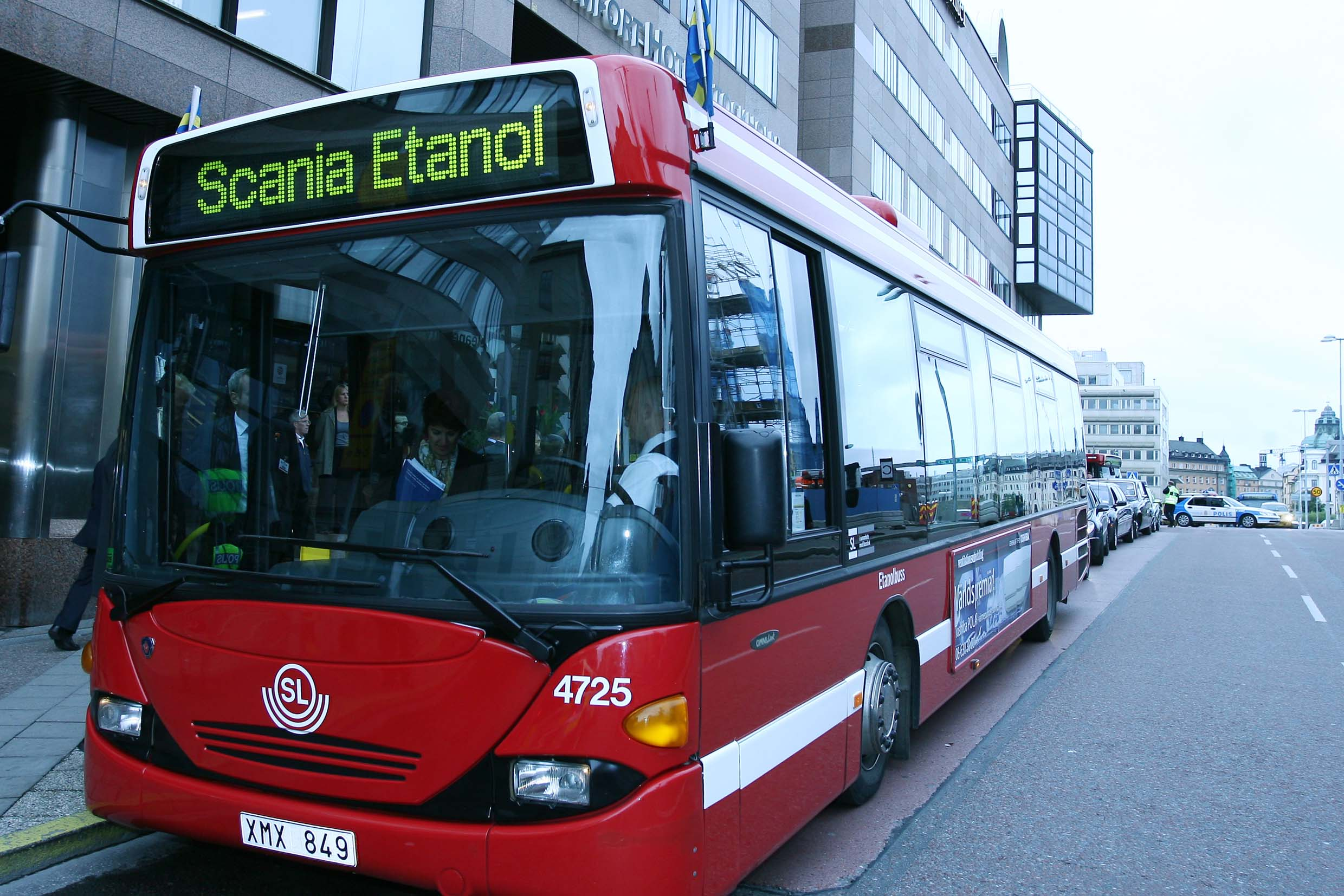 Scania CL94UB OmniLink in Stockholm, Sweden. Year built 2006?